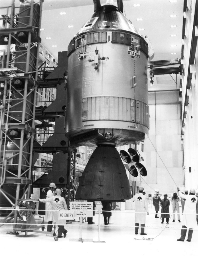 NASA image 69-H-1791 Apollo 13 CSM in Assembly and Test.